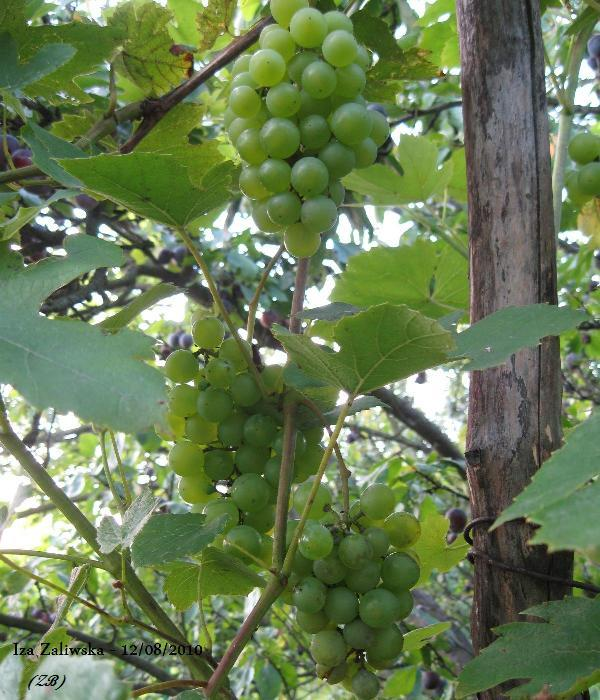 Vine of 'Iza Zaliwska' variety